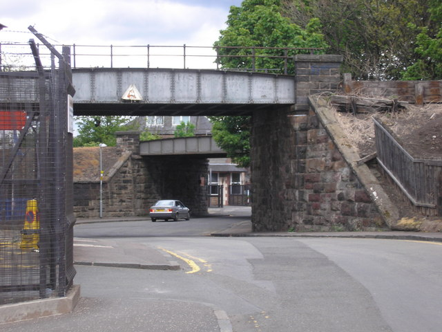 Two Railway Bridges and a Gatehouse The view of two railway bridges and beyond the second bridge the gatehouse to the North British Distillery at the end of Wheatfield Road.